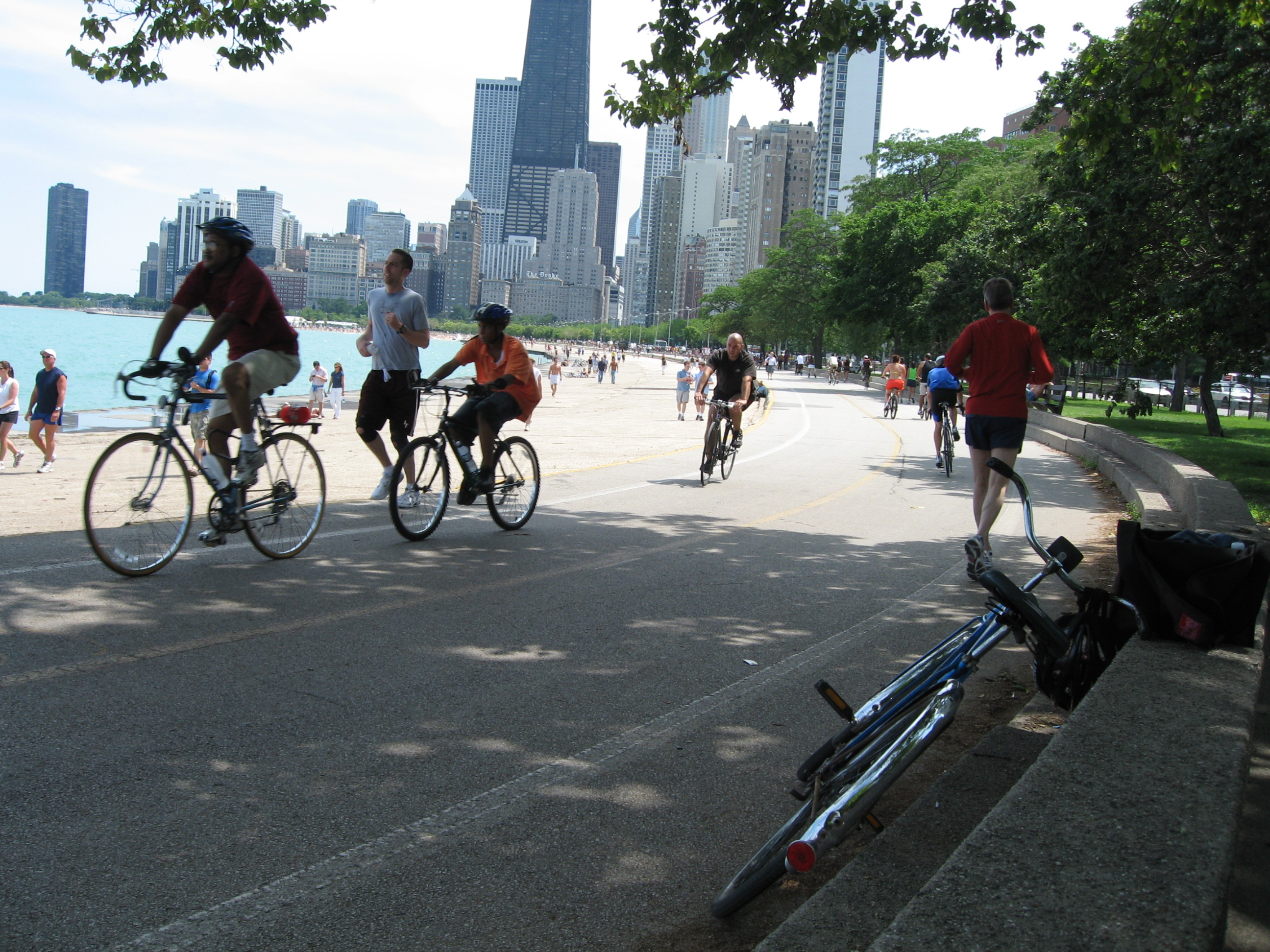 The Chicago Lakefront Trails are paved paths separated from the road for bicyclists, walkers, runners, and in-line skaters. See also: Cycling in Chicago McDonald's Cycle Center Chicago Bike Map